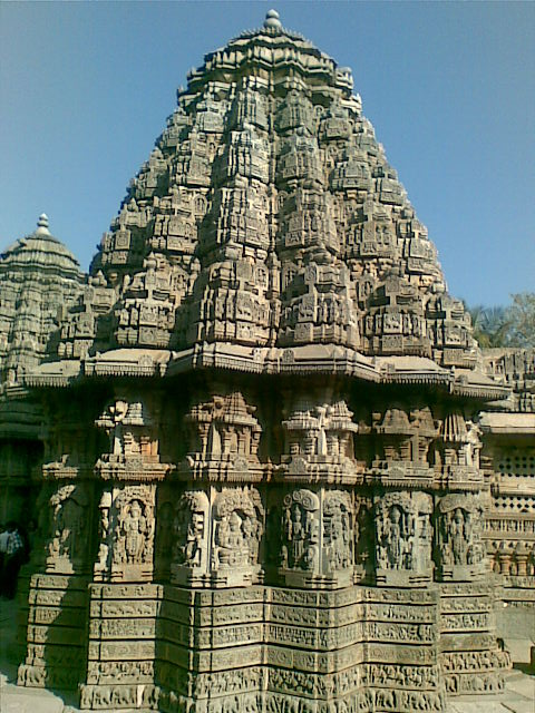 One of the Gopuras of Somanathapura Temple படிமம்:Somanathapura 3.jpg